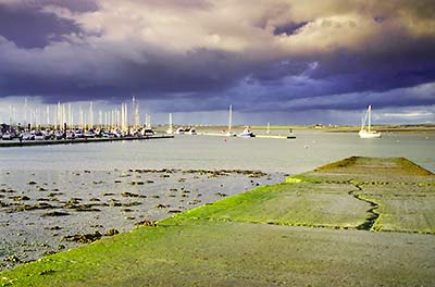 Picture taken by myself, Olivier Deme Can be found on my website